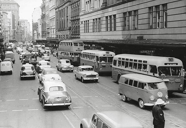 Traffic in George Street after the replacement of trams by buses, Sydney Dated: c. 01/01/1962 Digital ID: 17420_a014_a0140001211 Rights: We'd love to hear from you if you use our photos. Many other photos in our collection are available to view and browse on our website using Photo Investigator.